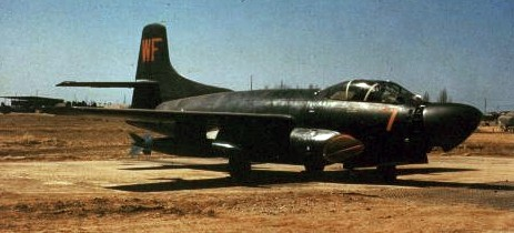 A Douglas F3D-2 Skyknight night fighter of Marine night fighter squadron VMF(N)-513 Flying Nightmares parked at airfield Kunsan in the Summer of 1953. Note the partially opened radar housing.